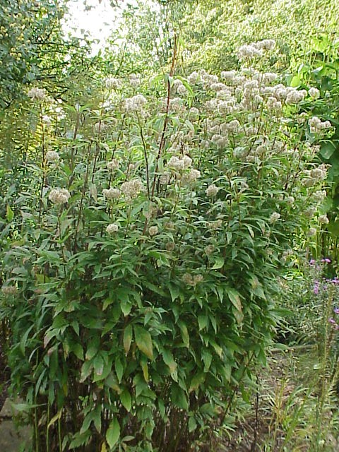 Hemp-agrimony Image no. 4